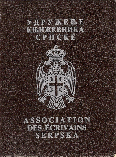 This is the front side of the Association of Writers of Republika Srpska membership card.